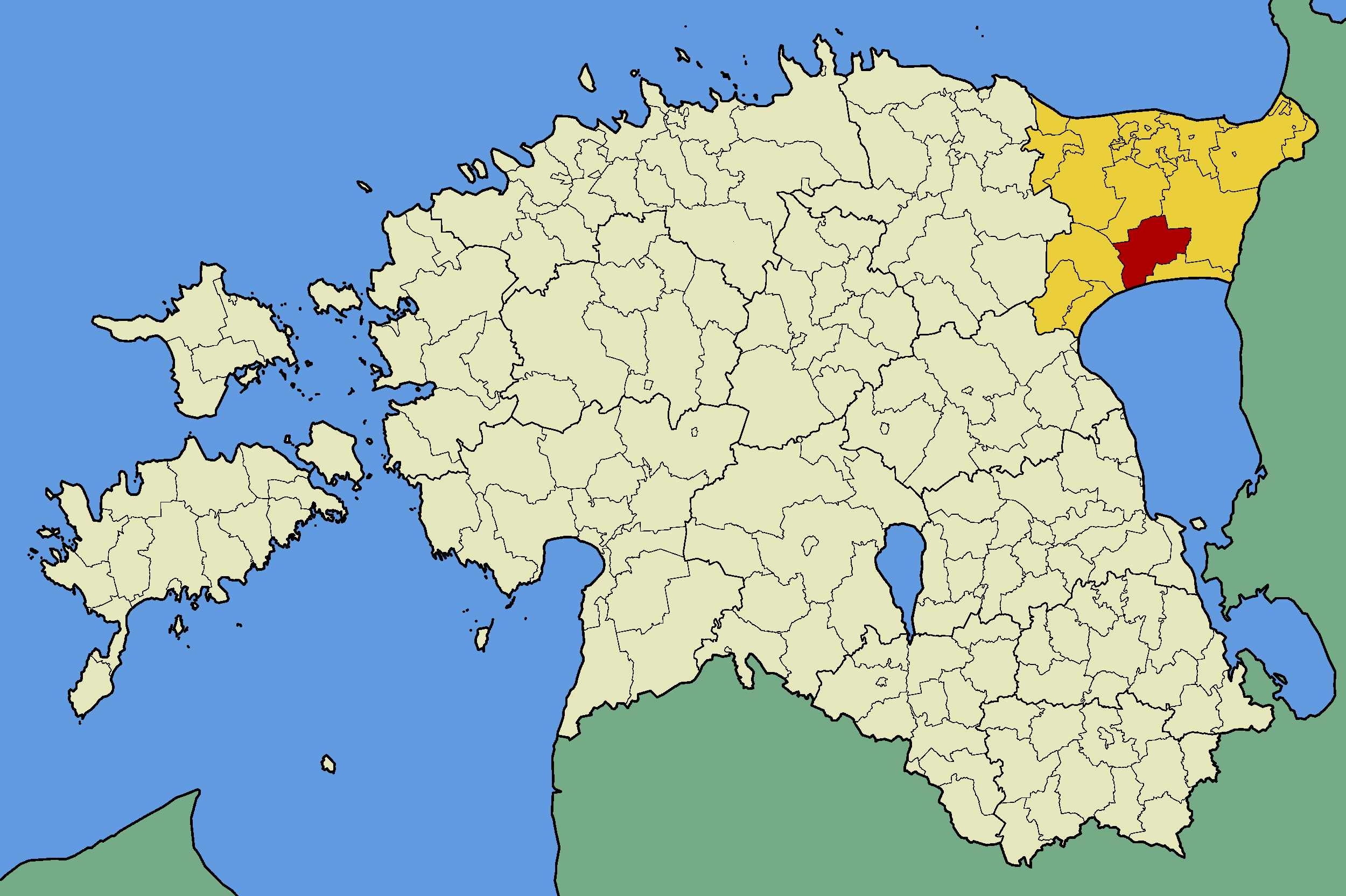 Map of Estonia with borders of municipalities (parishes). Ida-Viru county and Iisaku municipality emphasized.